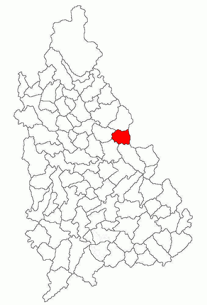 Locator map of the city of Moreni in Dâmbovița County, Romania